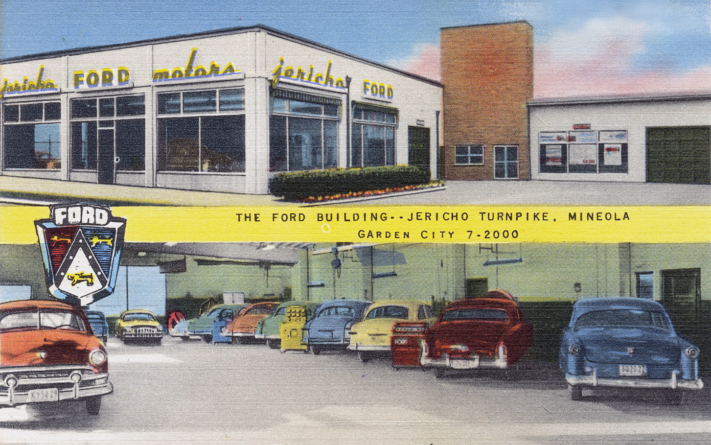 File name: 06_10_012746 Title: The Ford building -- Jericho Turnpike, Mineola, Garden City Created/Published: Date issued: 1930 - 1945 (approximate) Physical description: 1 print (postcard) : linen texture, color ; 3 1/2 x 5 1/2 in. Genre: Postcards Subjects: Automobile service stations Notes: Title from item. Collection: The Tichnor Brothers Collection Location: Boston Public Library, Print Department Rights: No known restrictions